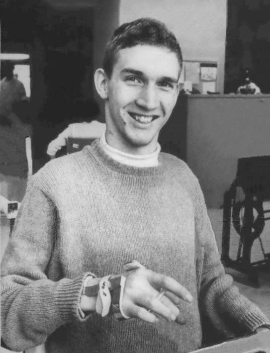 1964 Press Photo Brian Sternberg, the University of Washington pole vaulter